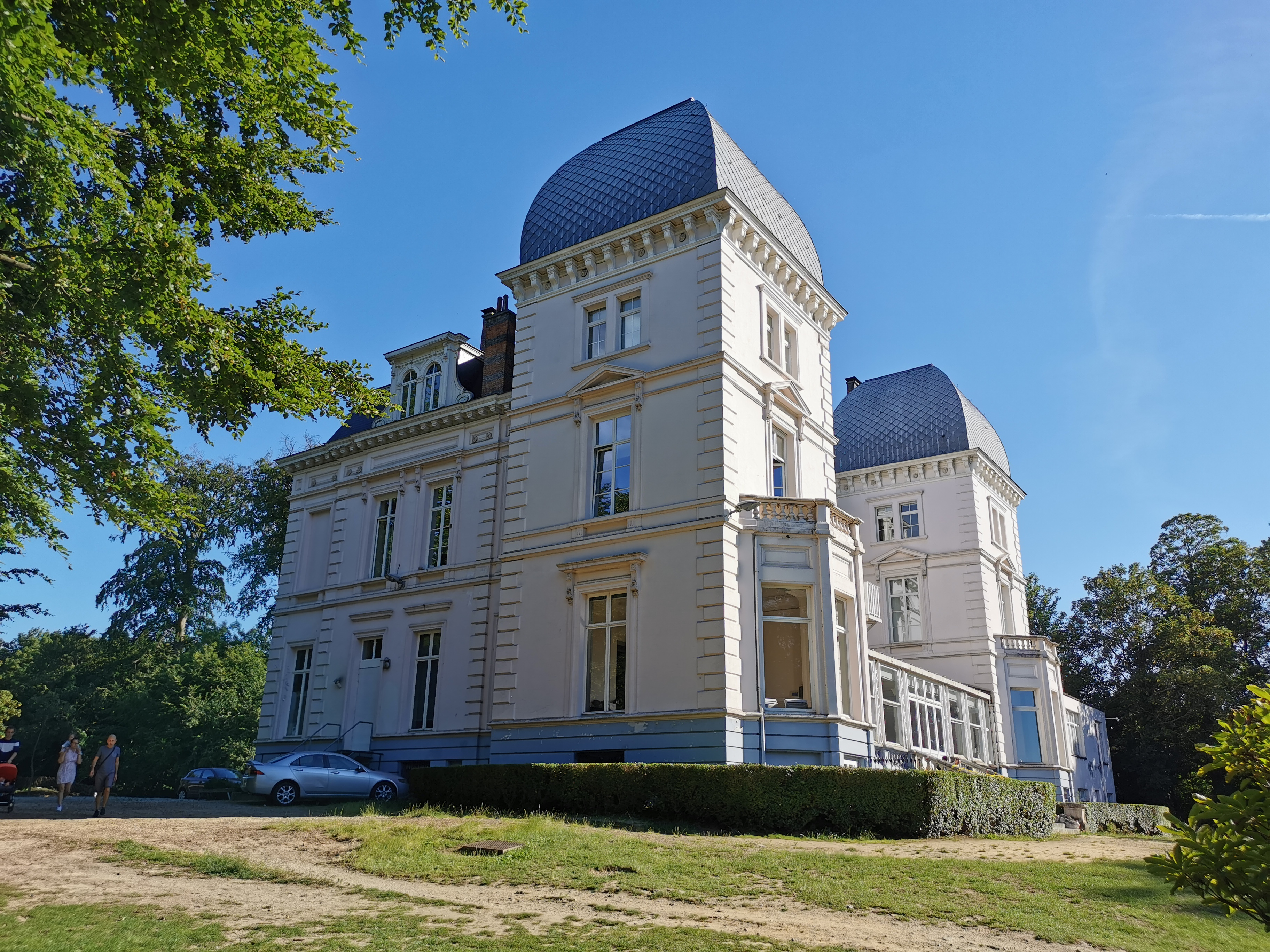 Duden castle